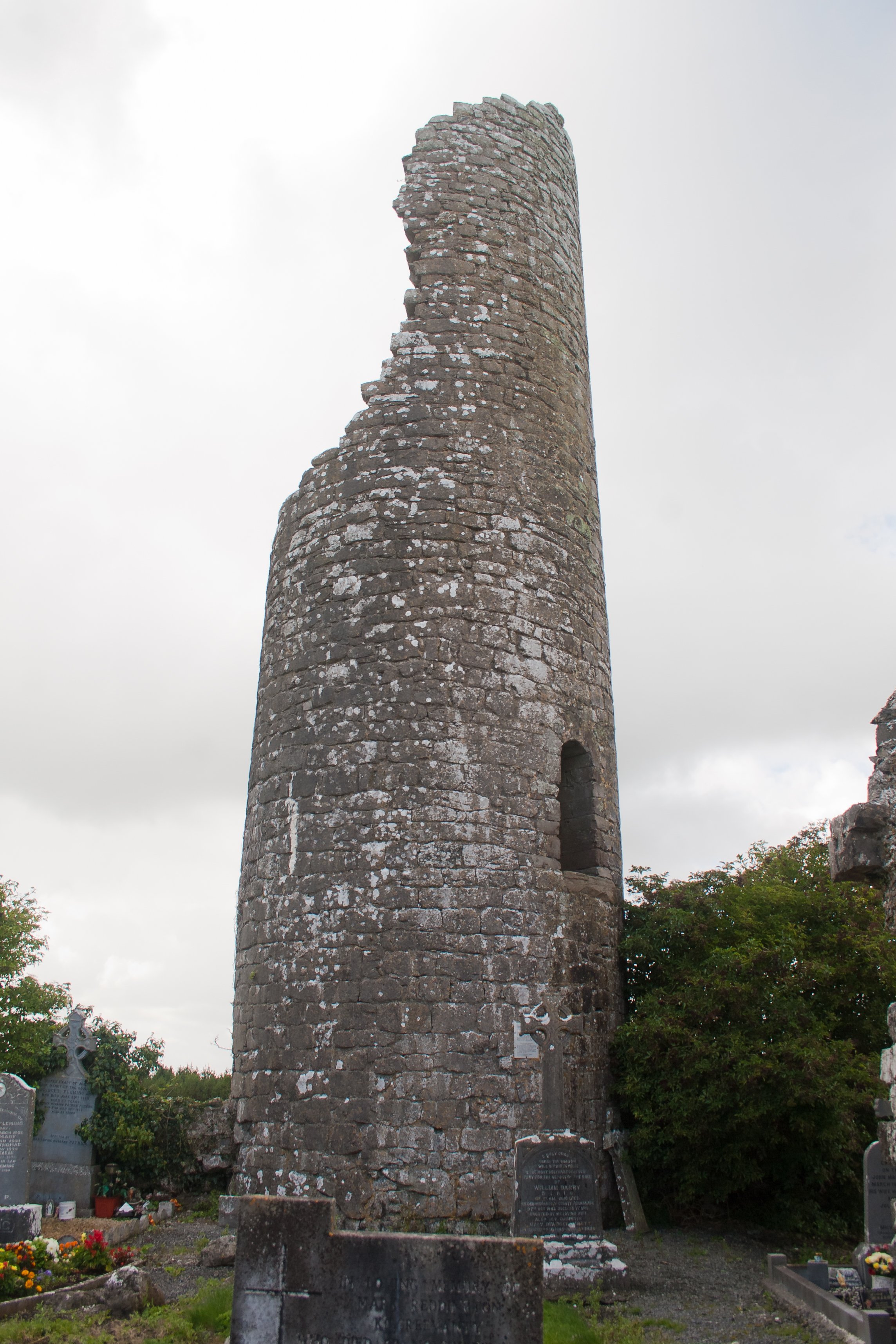 East view of the round tower.